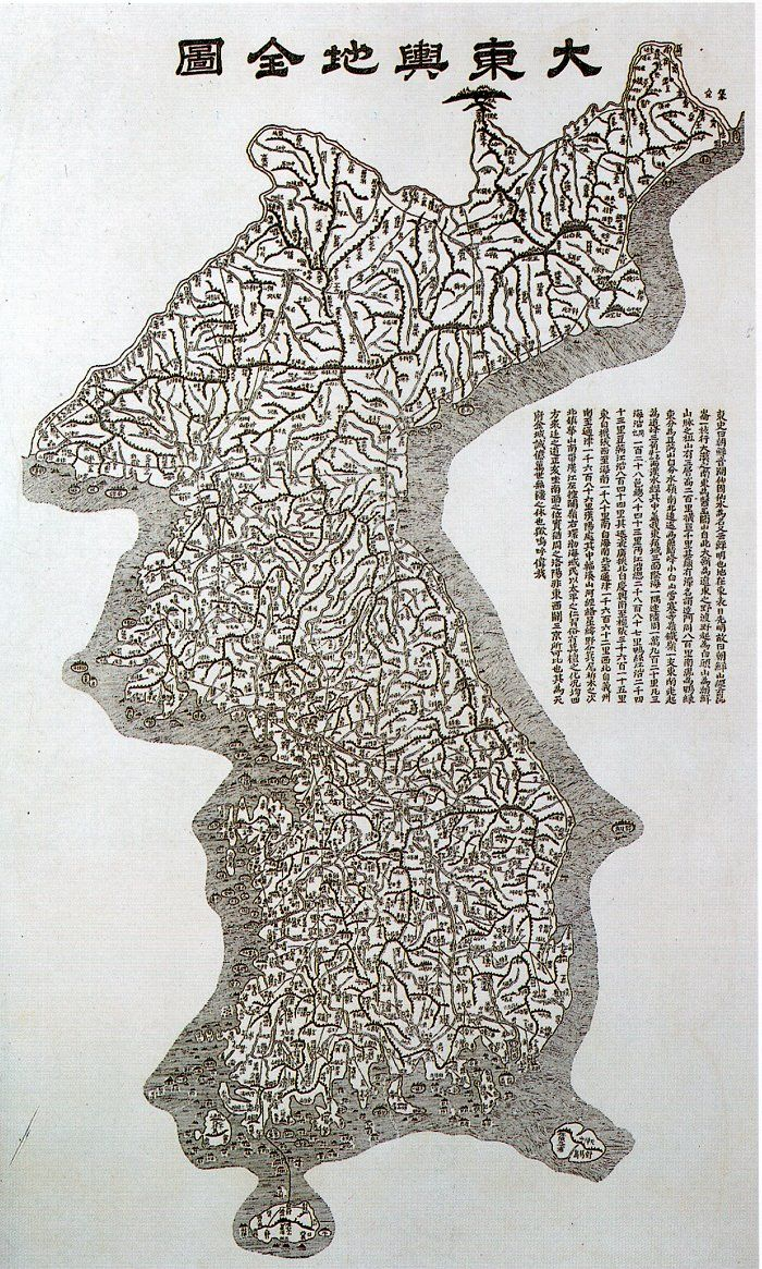 Kim Jeong-ho"DaedongYeoji Jeondo1861":Tsushima has been included, but Liancourt Rocks has not been included.